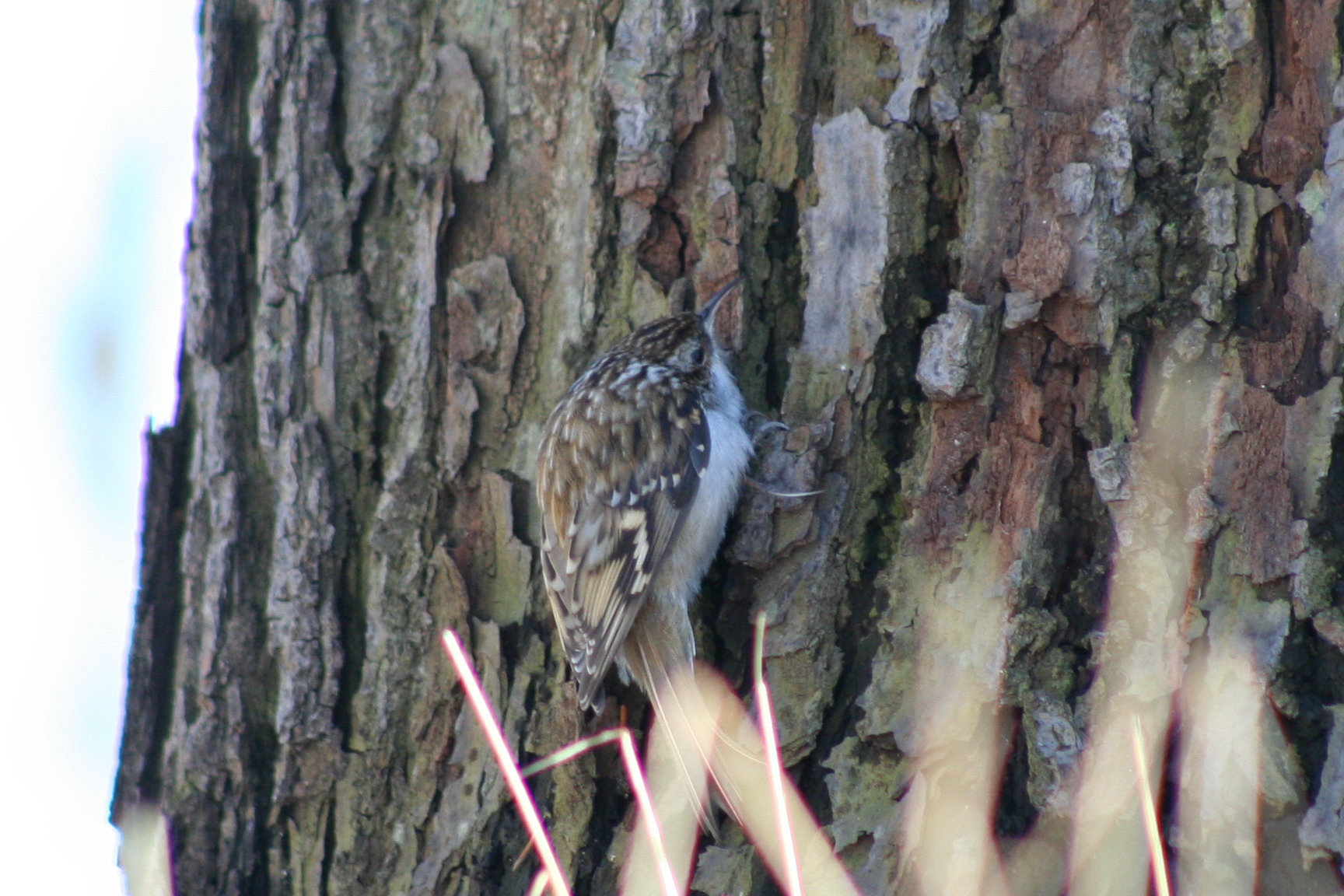 Certhia familiaris, Common treecreeper